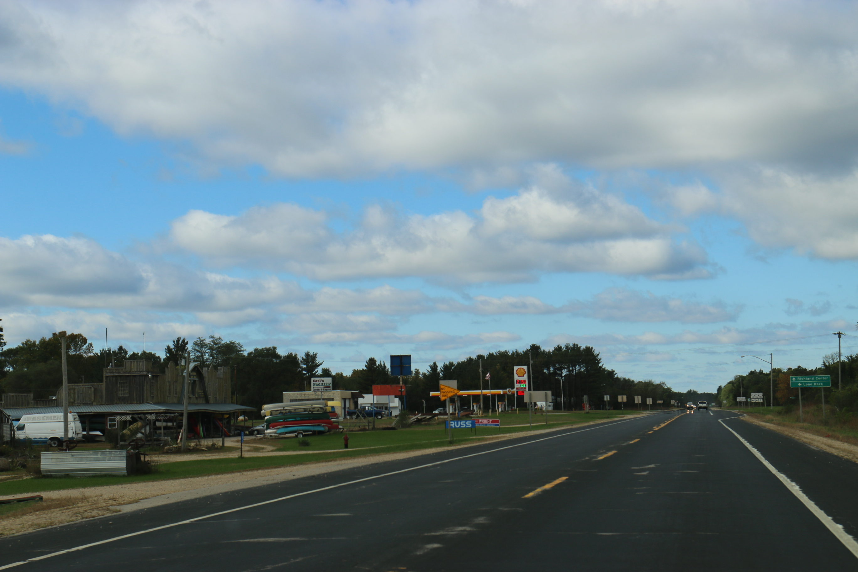 Downtown Lone Rock, Wisconsin on WIS60.